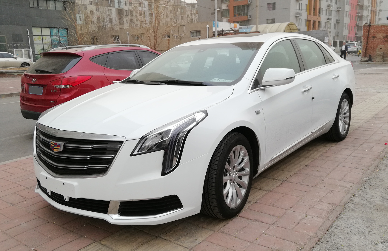 Cadillac XTS facelift photographed in Beijing, China.